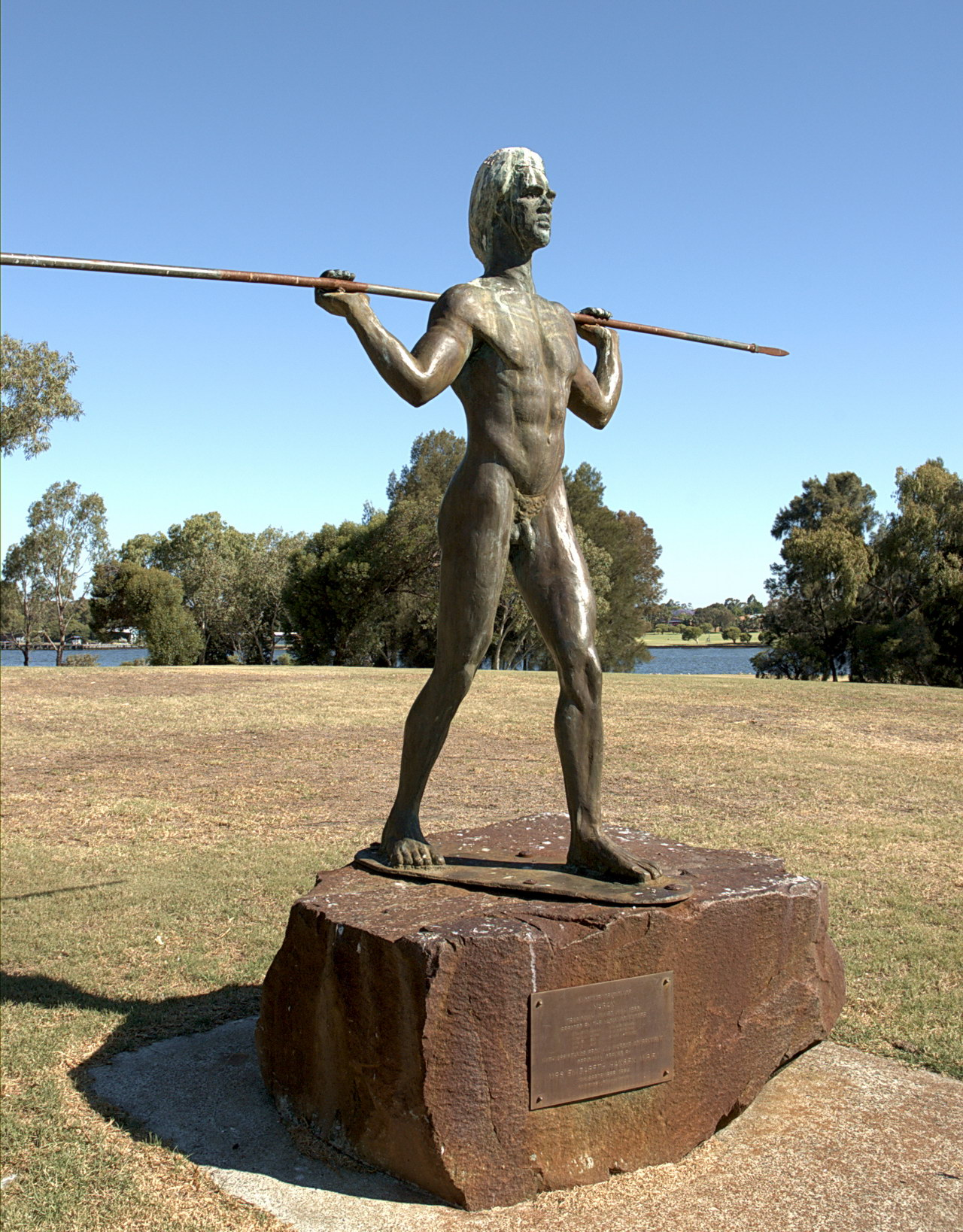 Yagan statue. Heirisson Island, Perth, Western Australia. The statue was sculpted in 1984 by Robert Hitchcock.